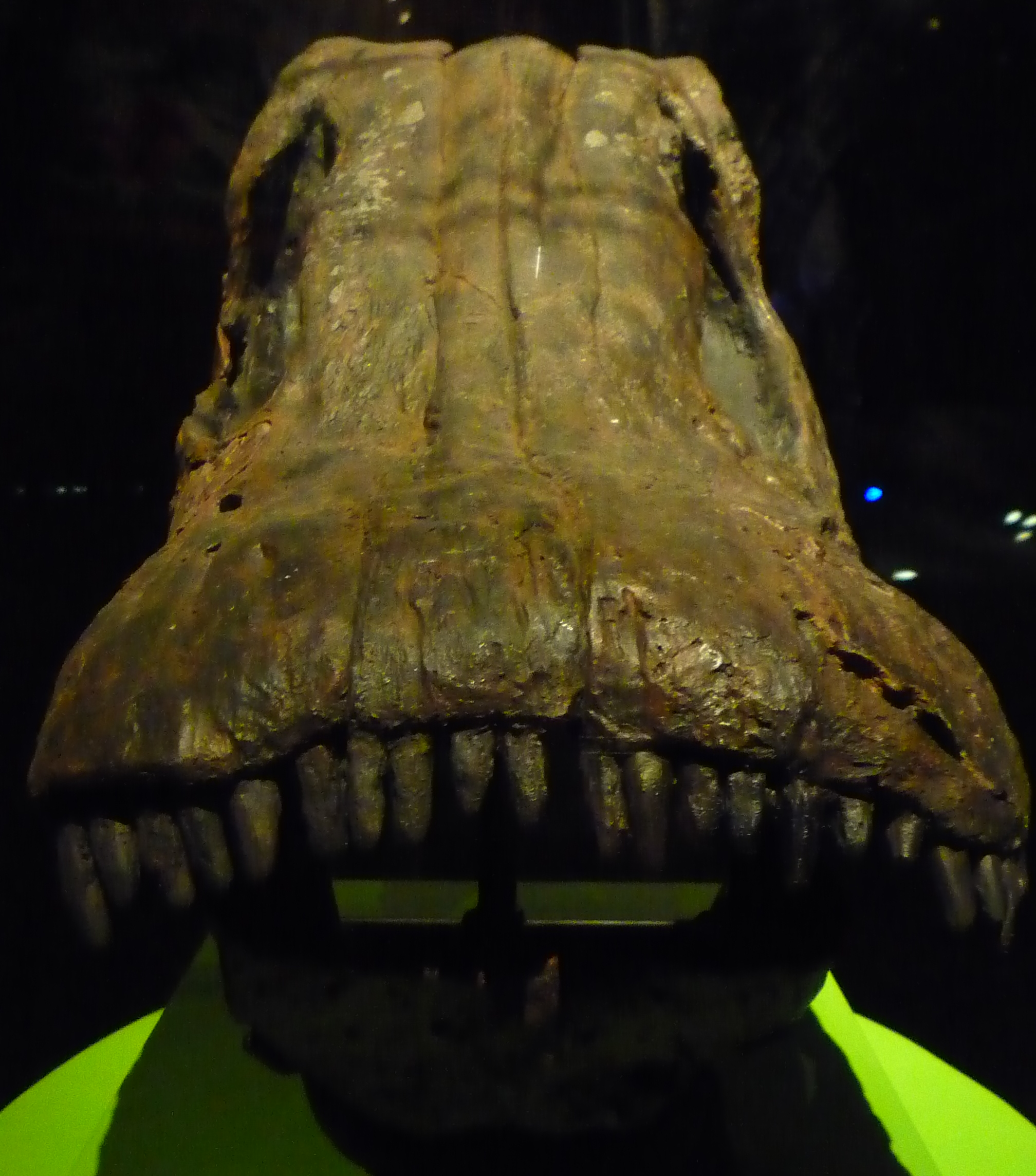 Skull of "Einstein" (Apatosaurus sp. BYU 17096) in front view.